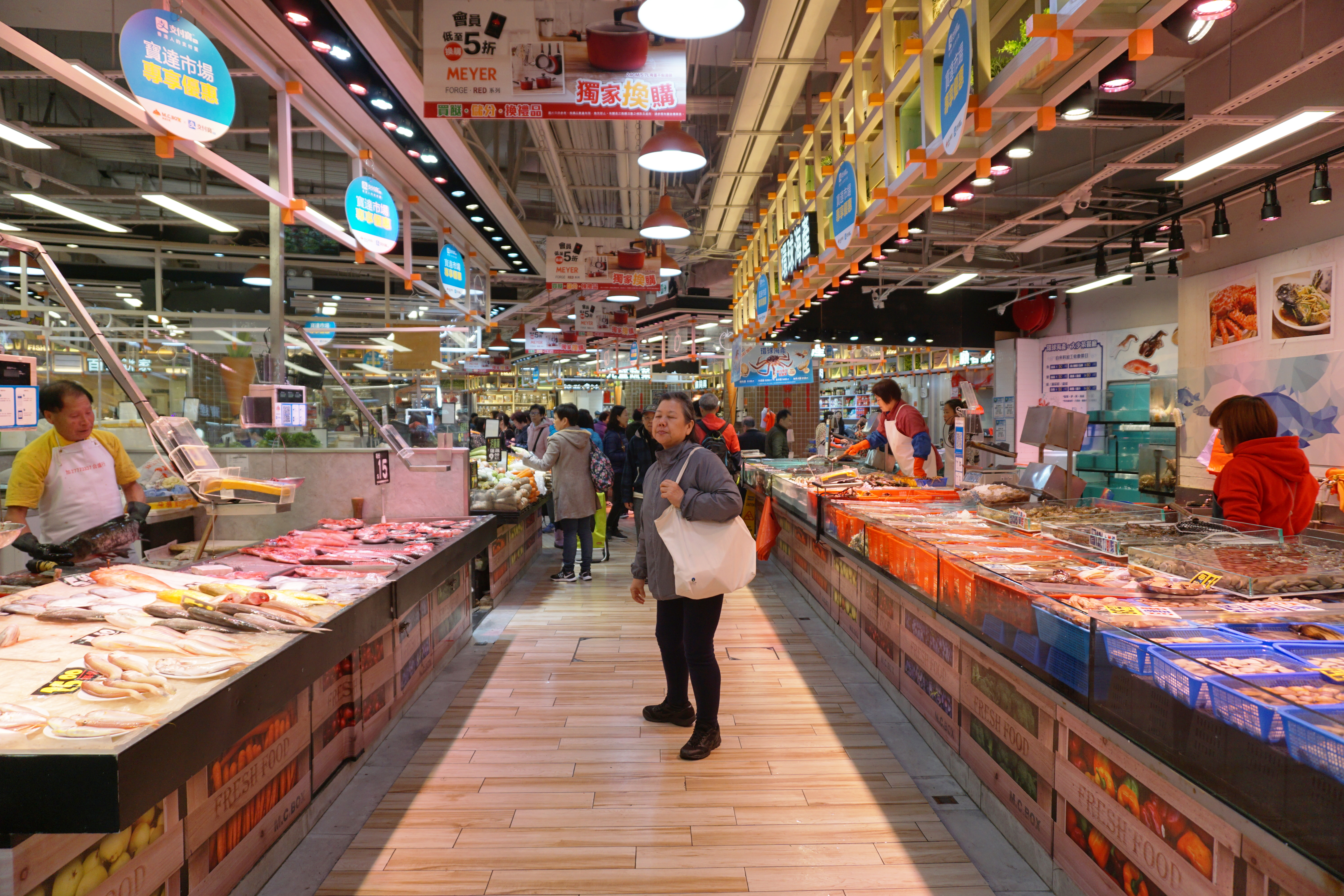 M.C.BOX Po Tat Market in Sau Mau Ping, Hong Kong.